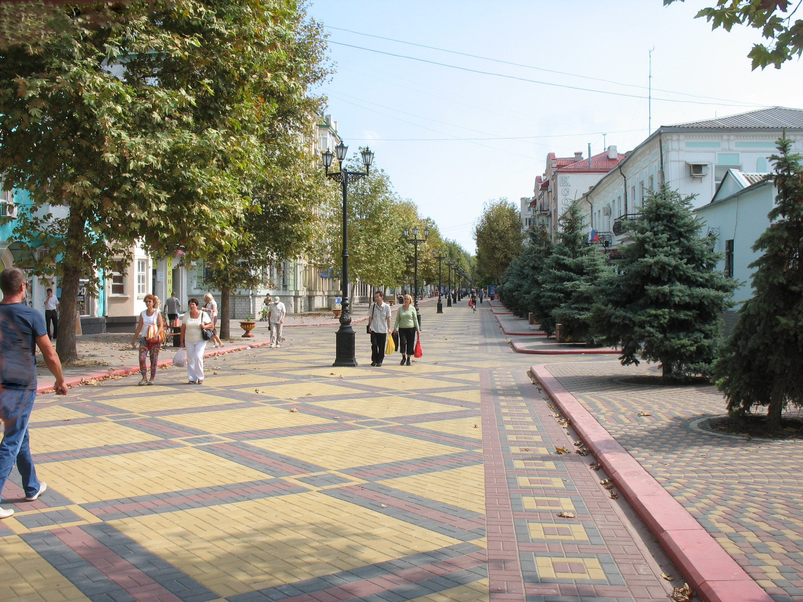 Lenina street in central Kerch.